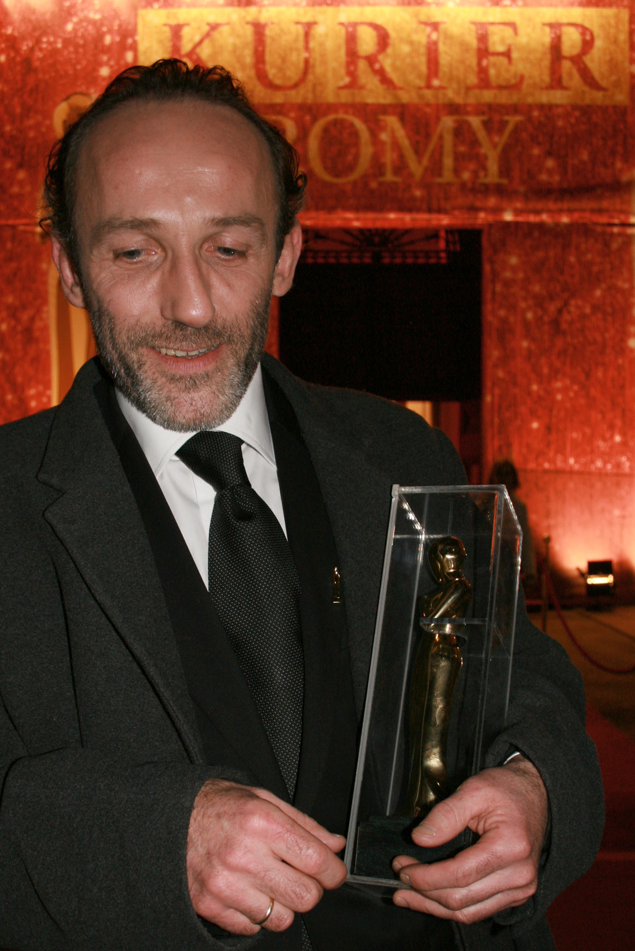 Actor Karl Markovics, awarded as Most Popular Actor, at the Romy TV awards (Hofburg Imperial Palace in Vienna)